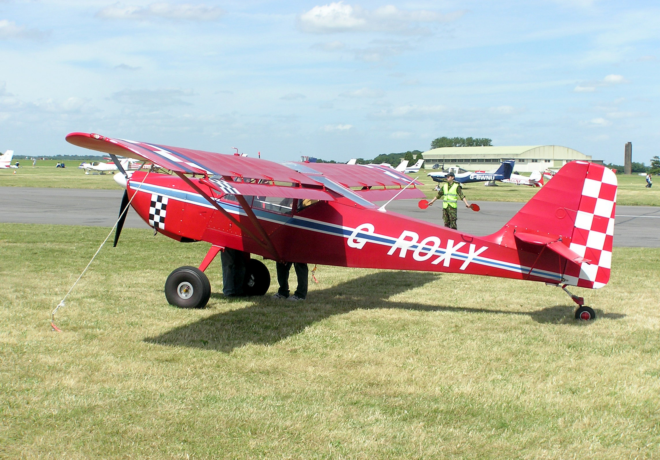 Skystar Kitfox Mk 7 at Kemble Airfield, Gloucestershire, England.